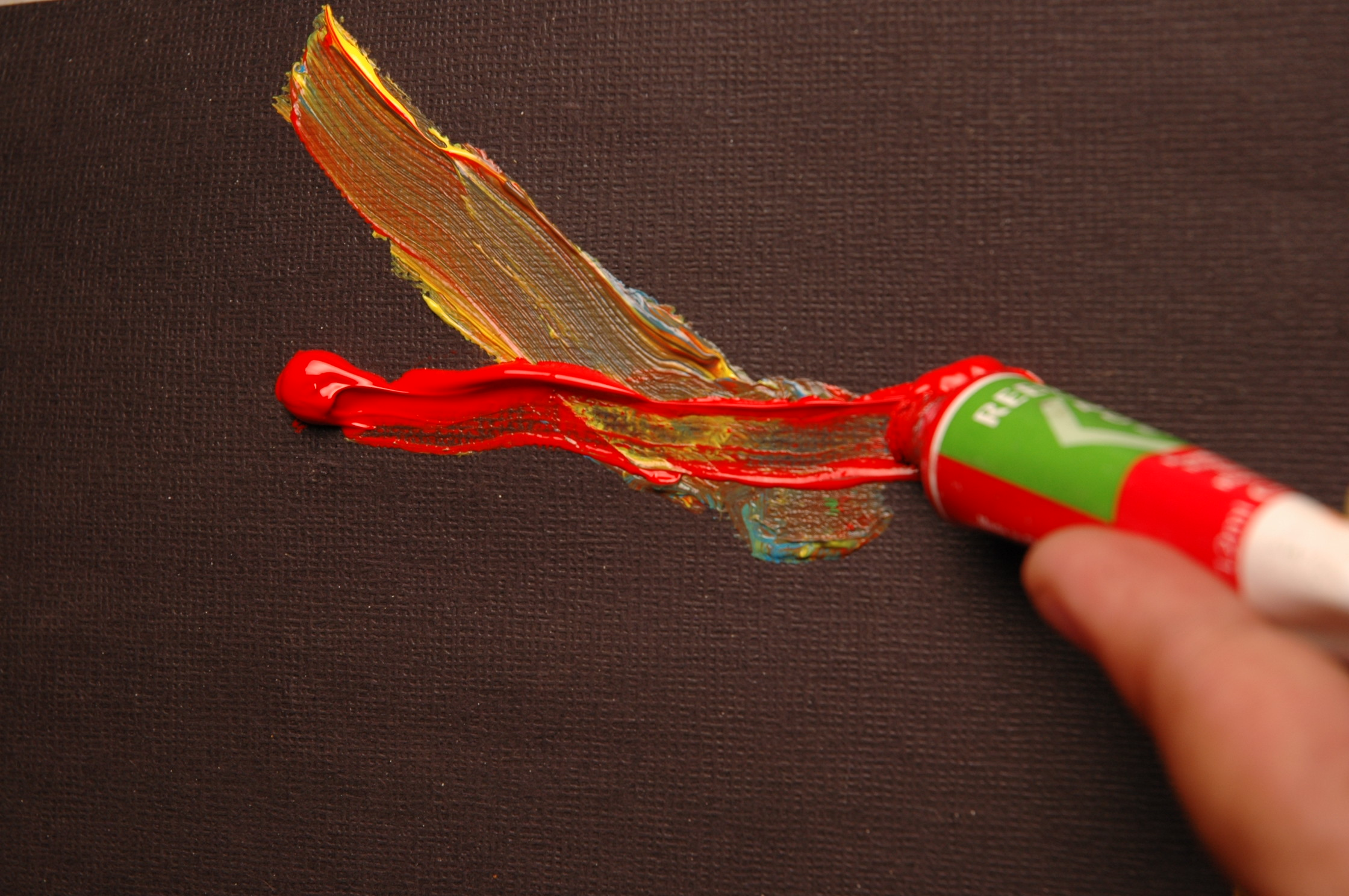 Examples of acrylic wash over other colors. Notice how the two different colors would be difficult to converge even in wet conditions.